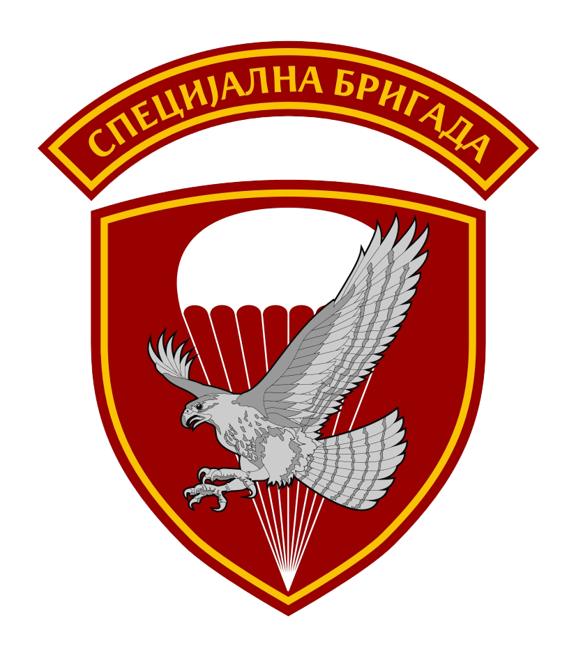 Patch of Special Brigade SAF